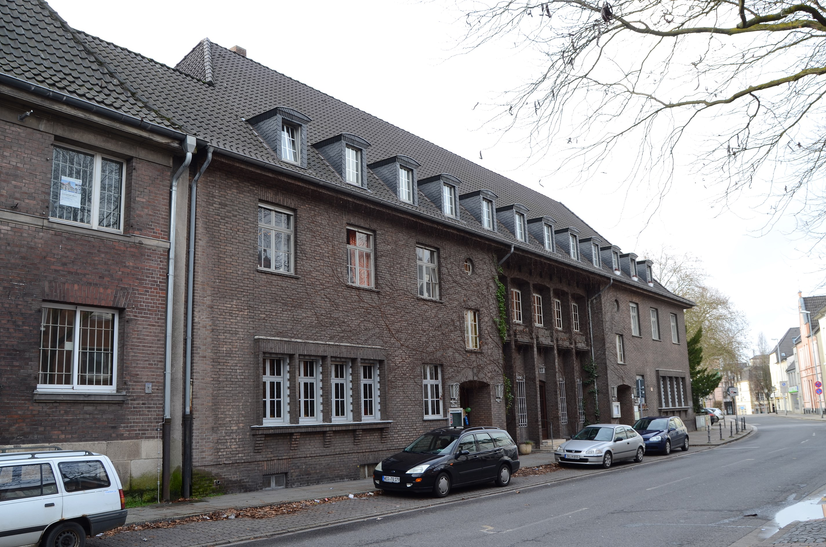 Moers (North Rhine-Westphalia, Germany) – Tersteegen House This photograph was taken with a Nikon D7000.